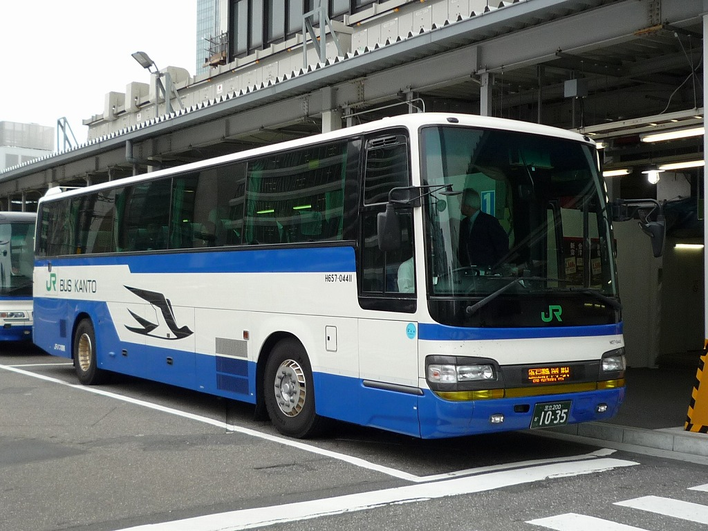 JR bus Kanto Tomei Highwaybus(Express Tokyo-Shizuoka)HINO S'ELEGA R(KL-RU1FSEA)